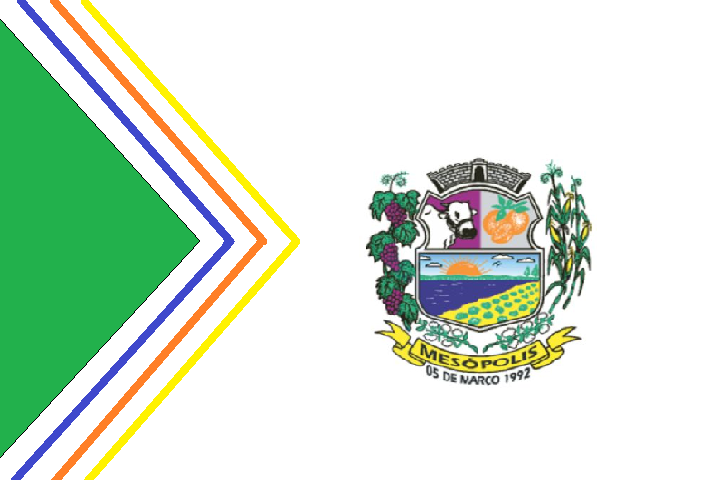 Flag of Mesópolis, state of São Paulo, Brazil. This work is in the public domain in Brazil for one of the following reasons: It is a work published or commissioned by a Brazilian government (federal, state, or municipal) prior to 1983.(Law 3071/1916, art. 662; Law 5988/1973, art. 46; Law 9610/1998, art. 115) It is the text of a treaty, convention, law, decree, regulation, judicial decision, or other official enactment.(Law 9610/1998, art. 8) This image shows a flag, a coat of arms, a seal or some other official insignia. The use of such symbols is restricted in many countries. These restrictions are independent of the copyright status.